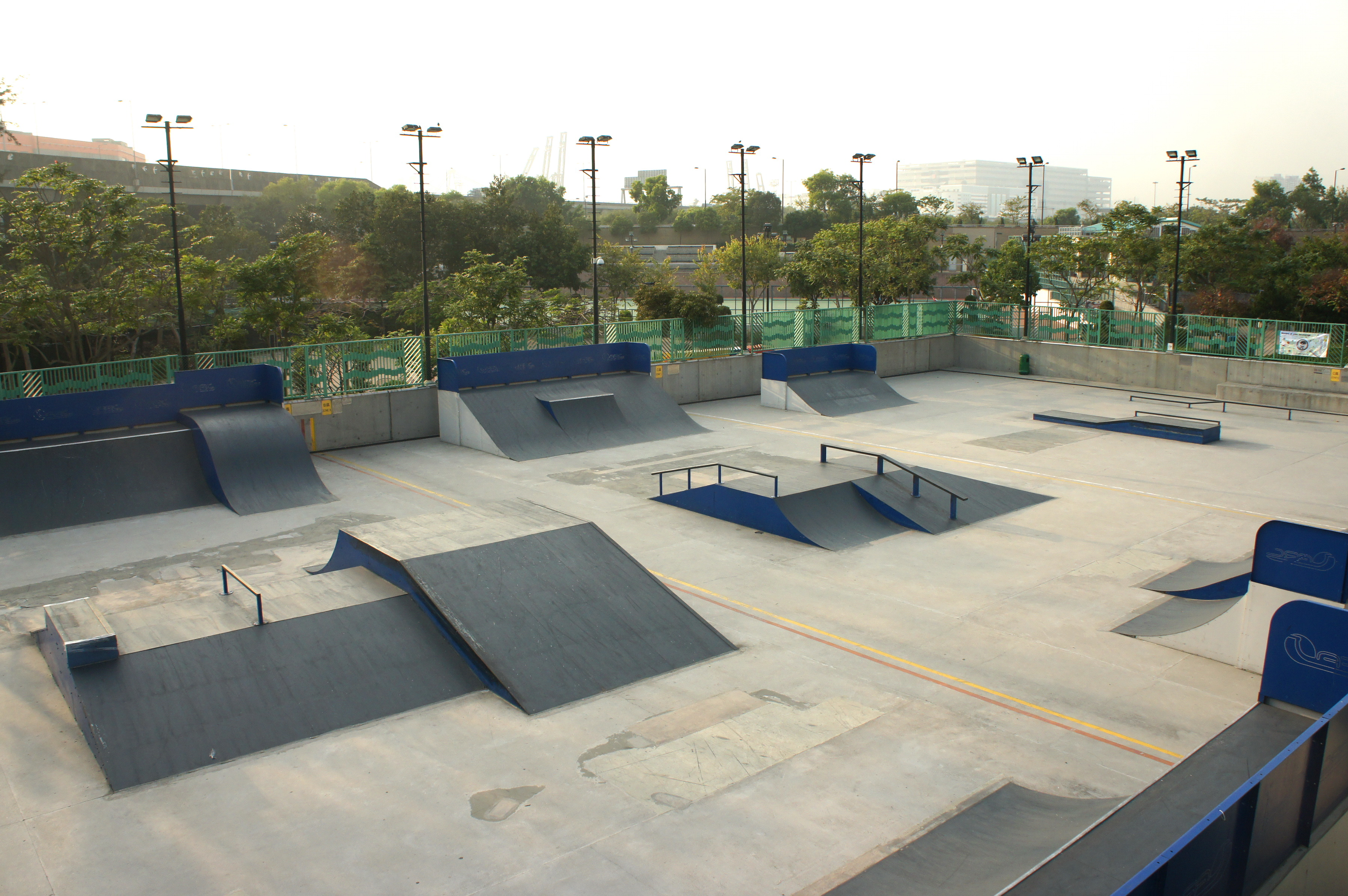 Roller skating rink in the Lai Chi Kok Park, Kowloon, Hong Kong. 中文（香港）: 香港九龍荔枝角公園第三期內的滑板場